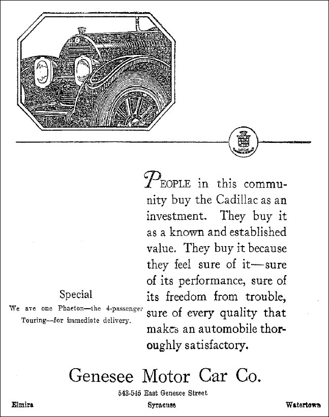 A 1919 Cadillac Advertisement - Phaeton, 4-passenger touring